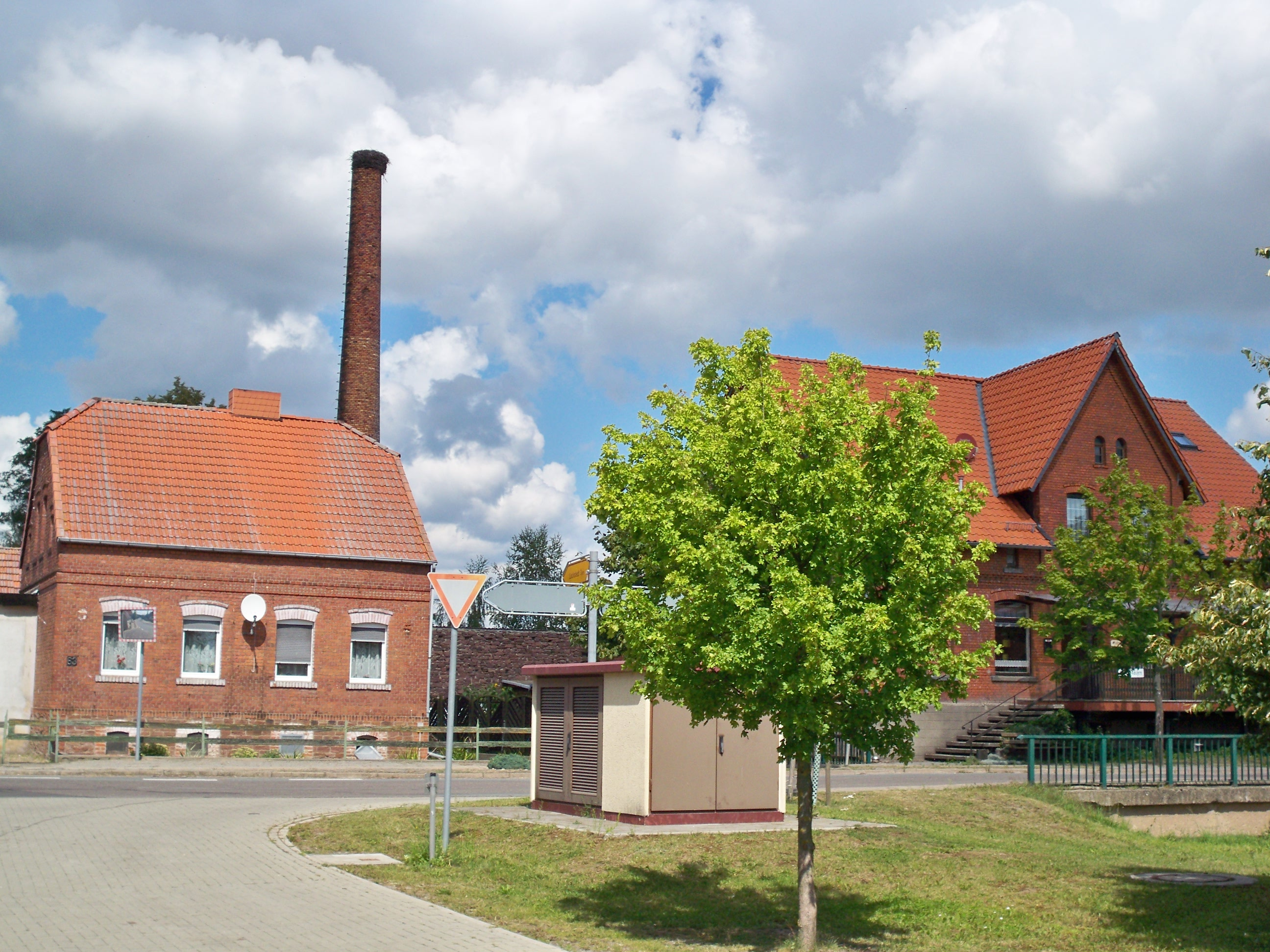 Everingen, Oebisfelde-Weferlingen, Saxony-Anhalt